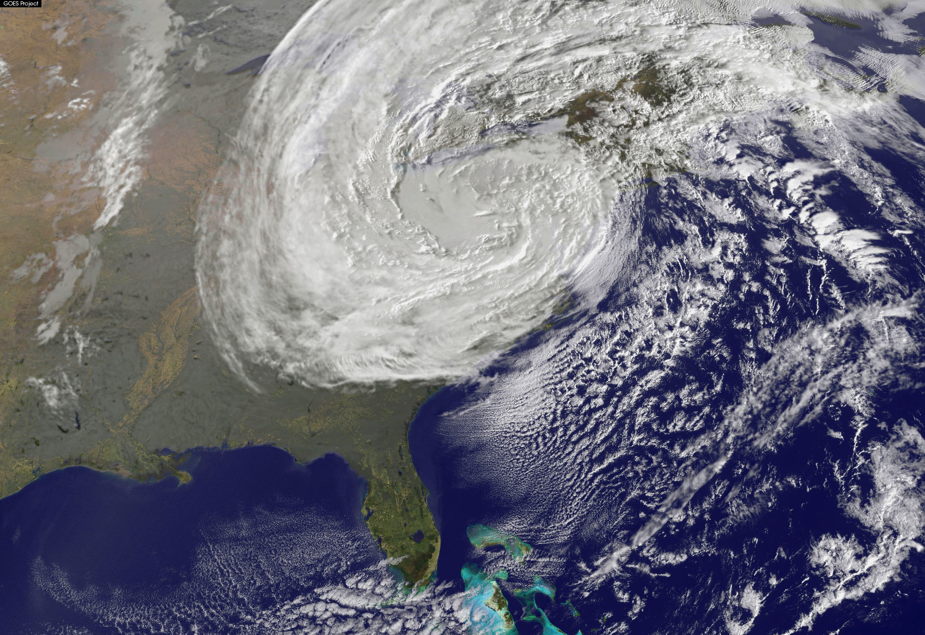 Visible satellite image of Superstorm Sandy over the Eastern United States, on the morning of Tuesday, October 30, 2012. The storm is currently at its maximum extratropical size, about a day after it's extratropical transition and landfall in southern New Jersey. The image has been resized, cropped, and brightened from its original version, in order to have the image focus more on the Superstorm, and to better depict the system.